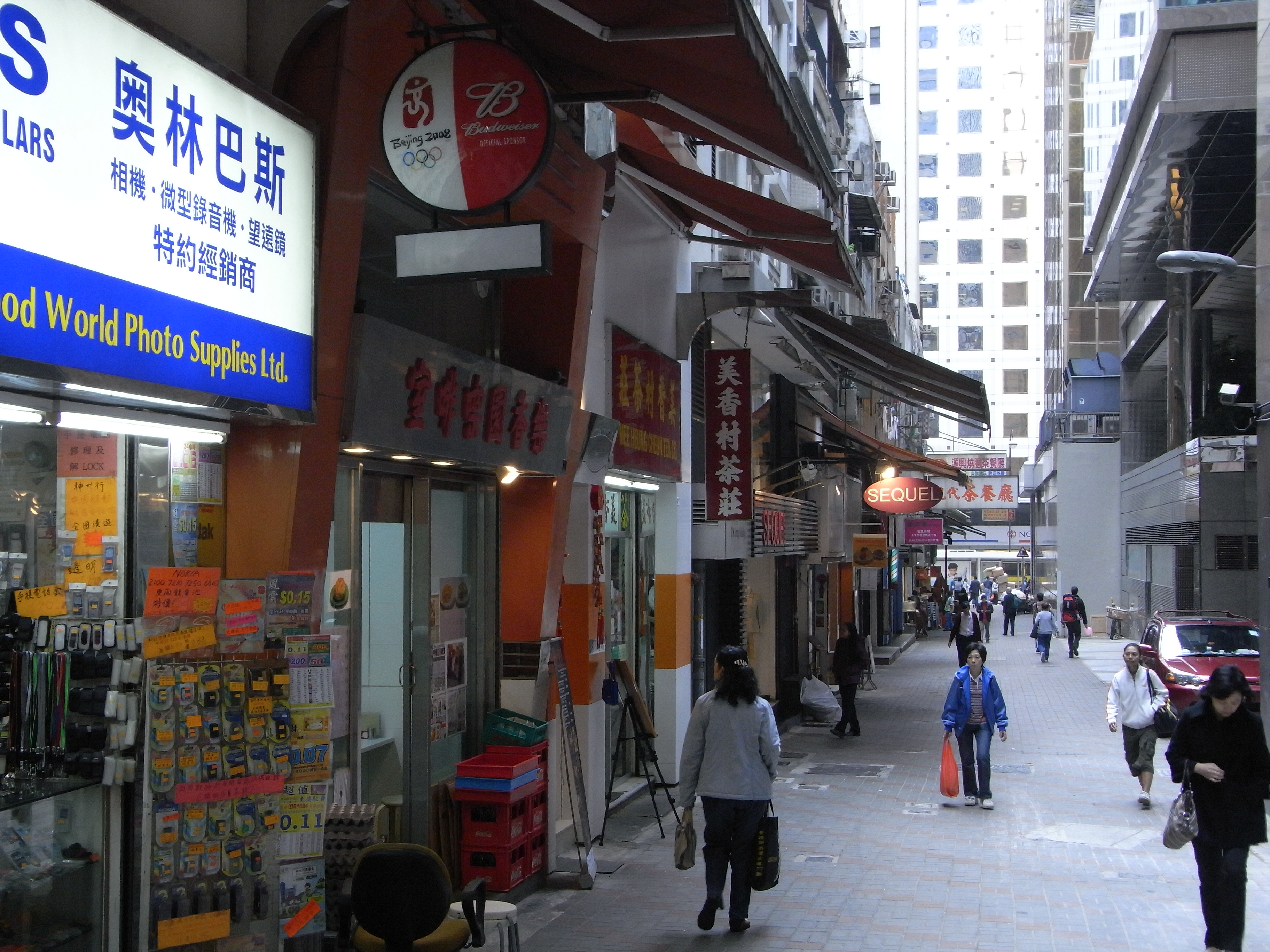 中環機利文新街